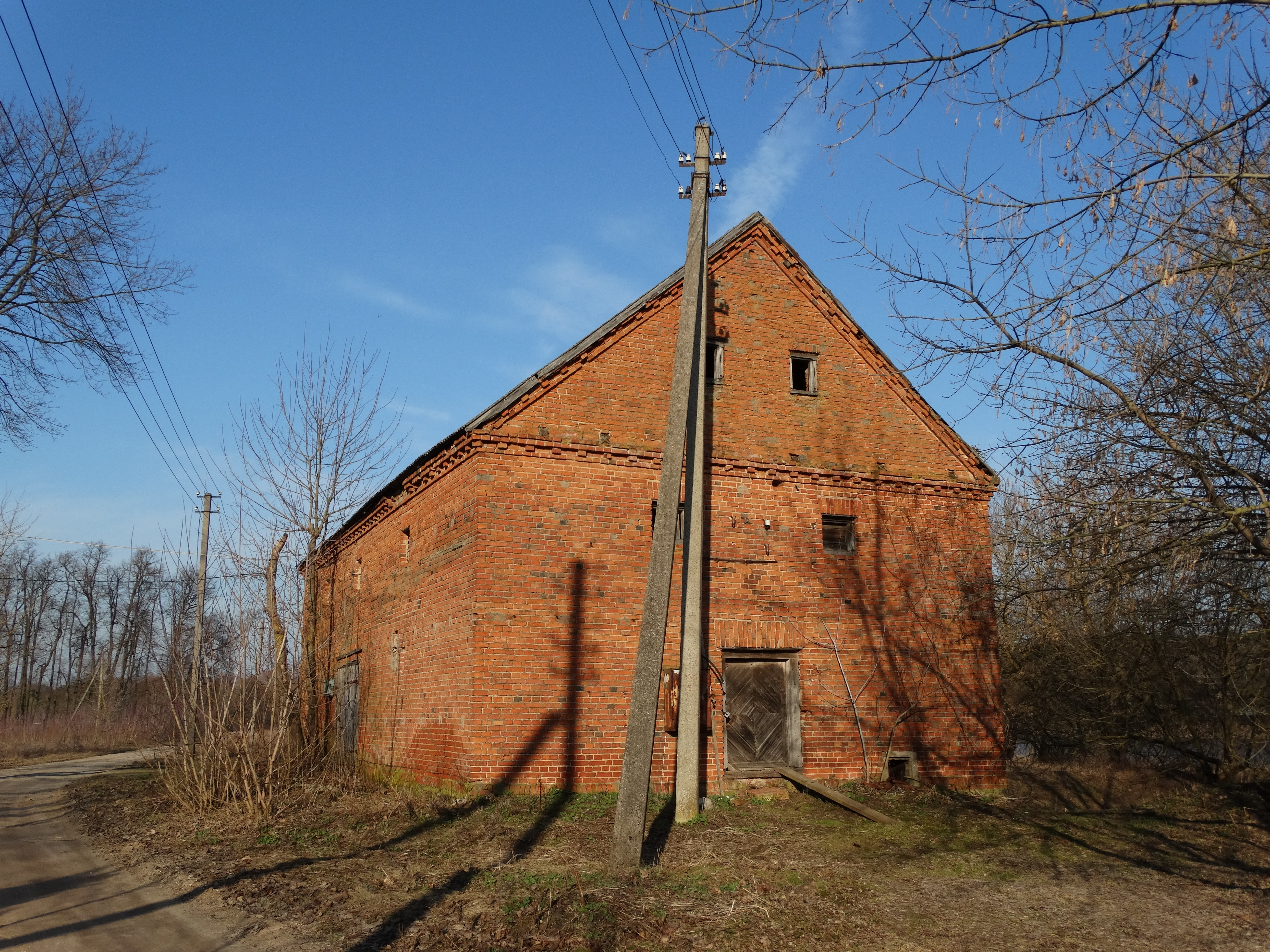 Mykoliškiai, Jonava district, Lithuania